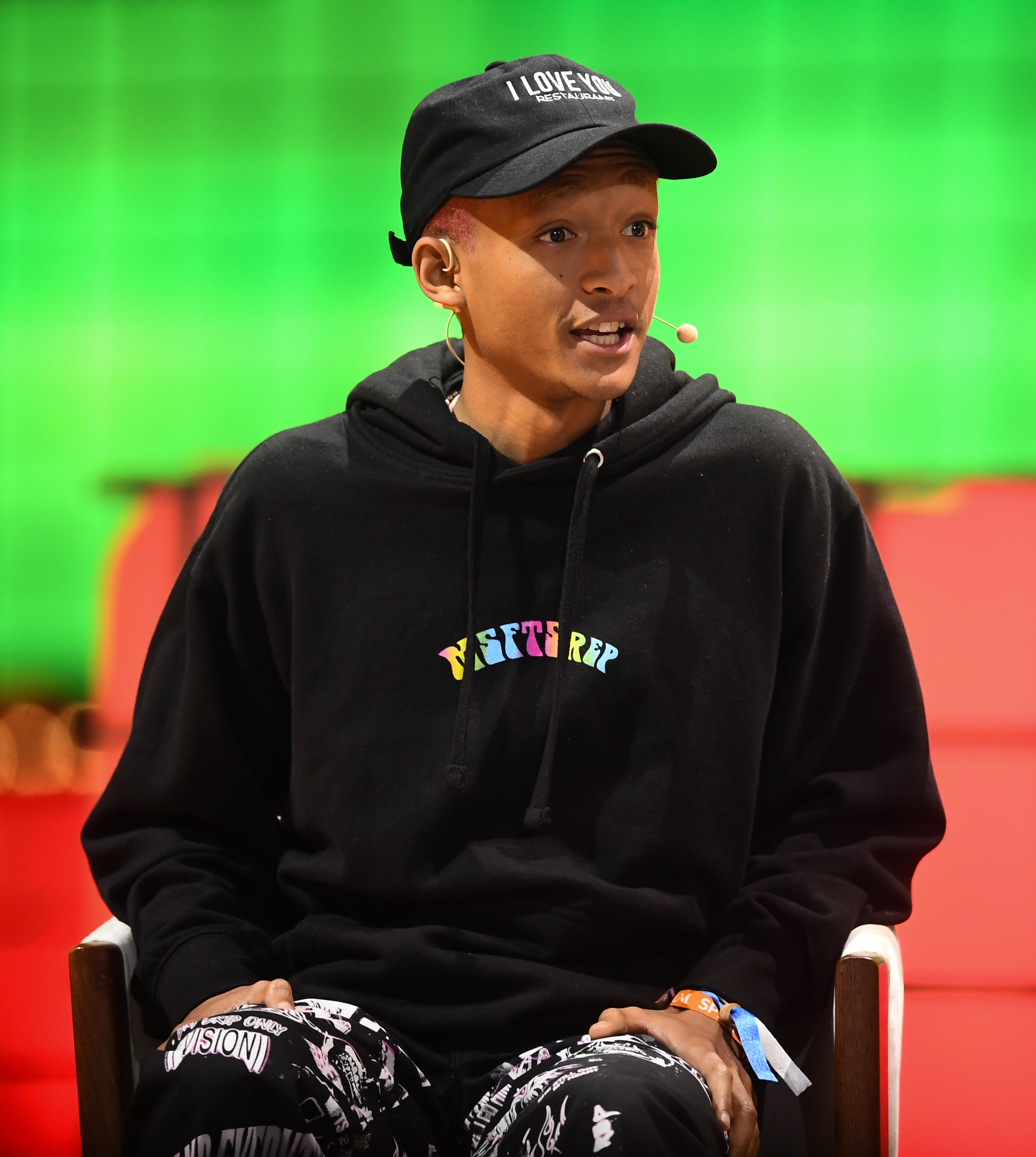 4 November 2019; Jaden Smith, Co-founder, & JUST water, during the opening night of Web Summit 2019 at the Altice Arena in Lisbon, Portugal. Photo by Stephen McCarthy/Web Summit via Sportsfile